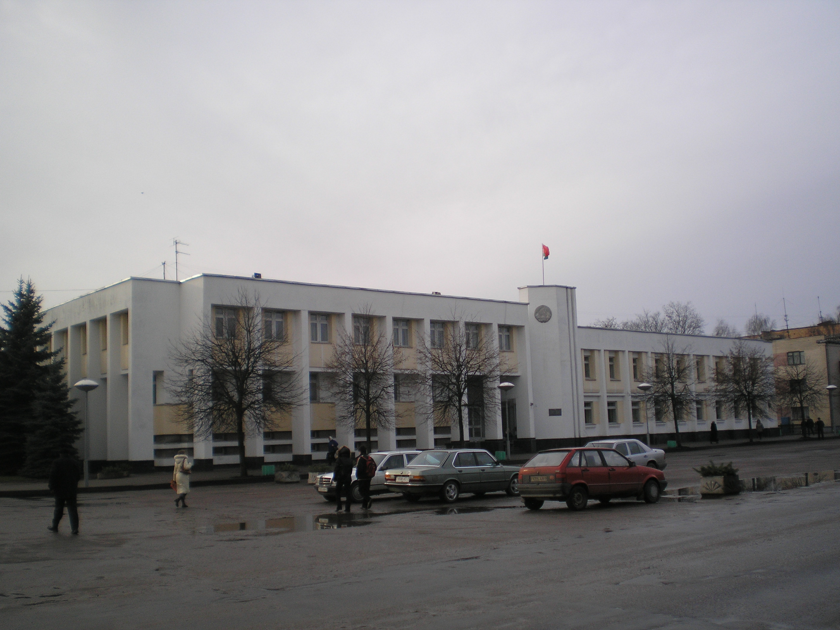 Administration of Kobrin